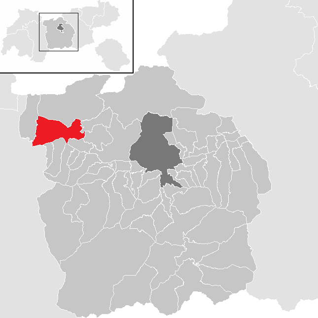 District Innsbruck Land